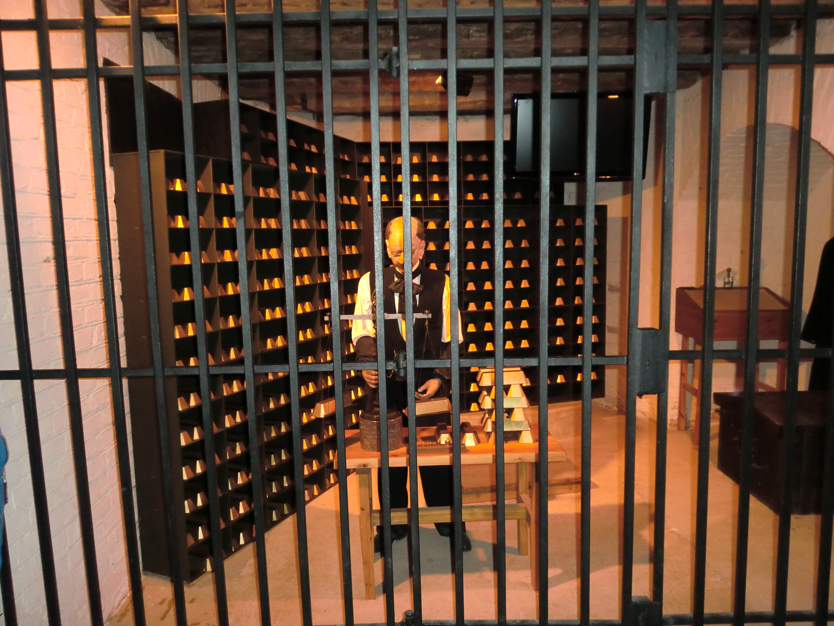 An imaginative situation showing the Swedish gold reserve transferred to storage at Karlsborg Fortress in times of war. The situation actually occurred in the early years of the Second world war, when parts of the gold reserve was transferred to the fortress. Mockup in the Karlsborg Fortressmuseum, Sweden.